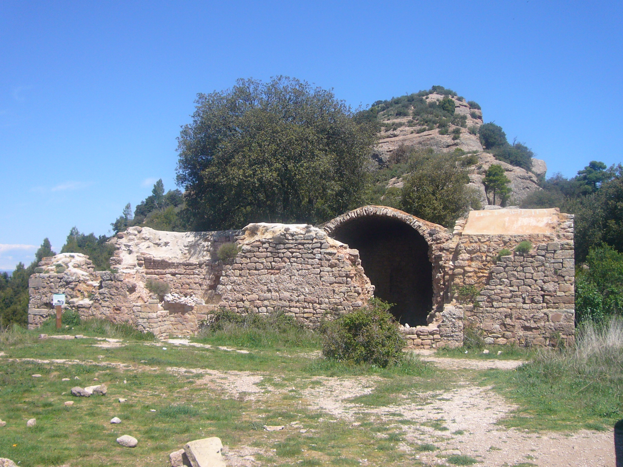 Sant Pau Vell de la Guàrdia